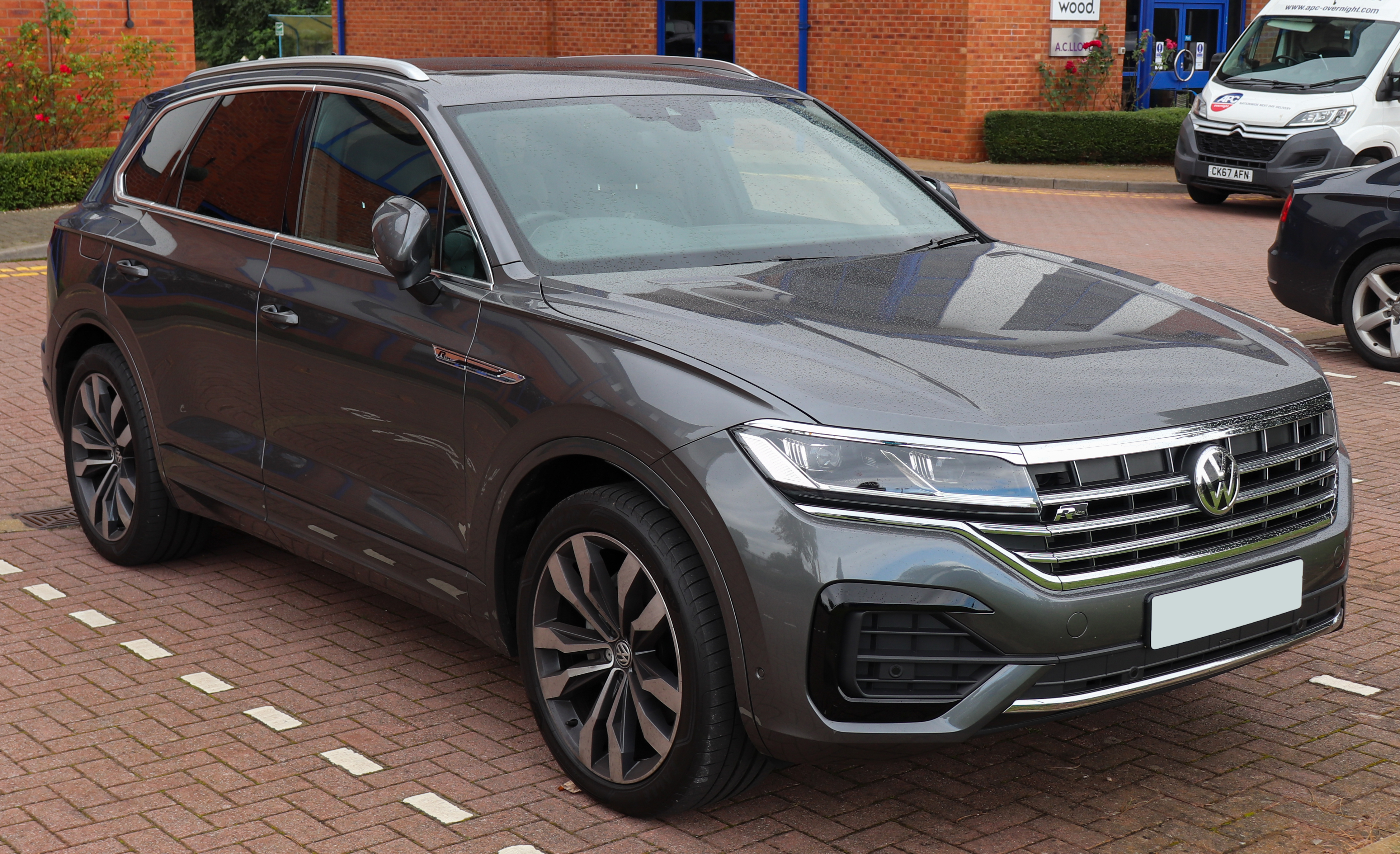 2019 Volkswagen Touareg V6 R-Line Tech TD 3.0 Front Taken in Leamington Spa